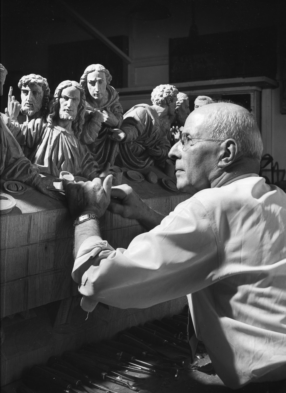 Photograph of Master Woodcarver Alois Lang working on "The Last Supper."